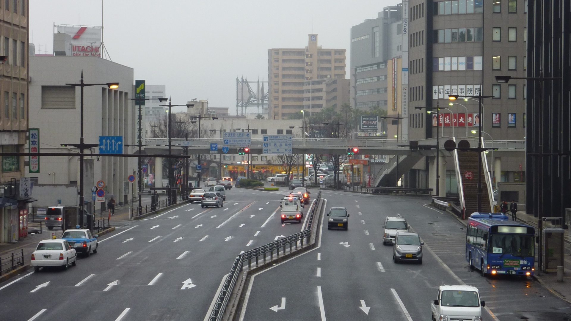 National Route 9 - Shimonoseki City, Yamaguchi Prefecture, Japan.